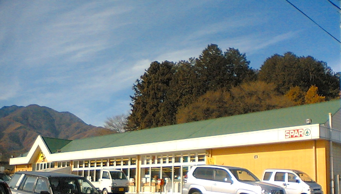 SPAR store in Yamanashi, Japan